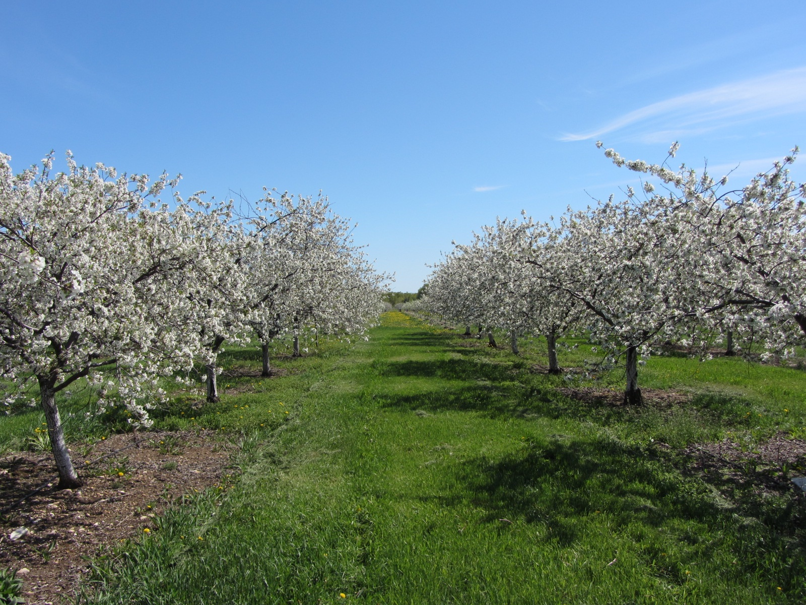 Cherry orchard in bloom on May 24, 2013 at Lautenbach's Orchard Country in Fish Creek, Wisconsin